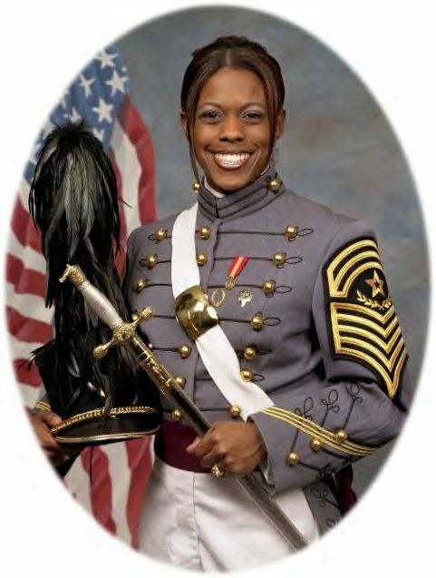 The late Lt. Emily Perez